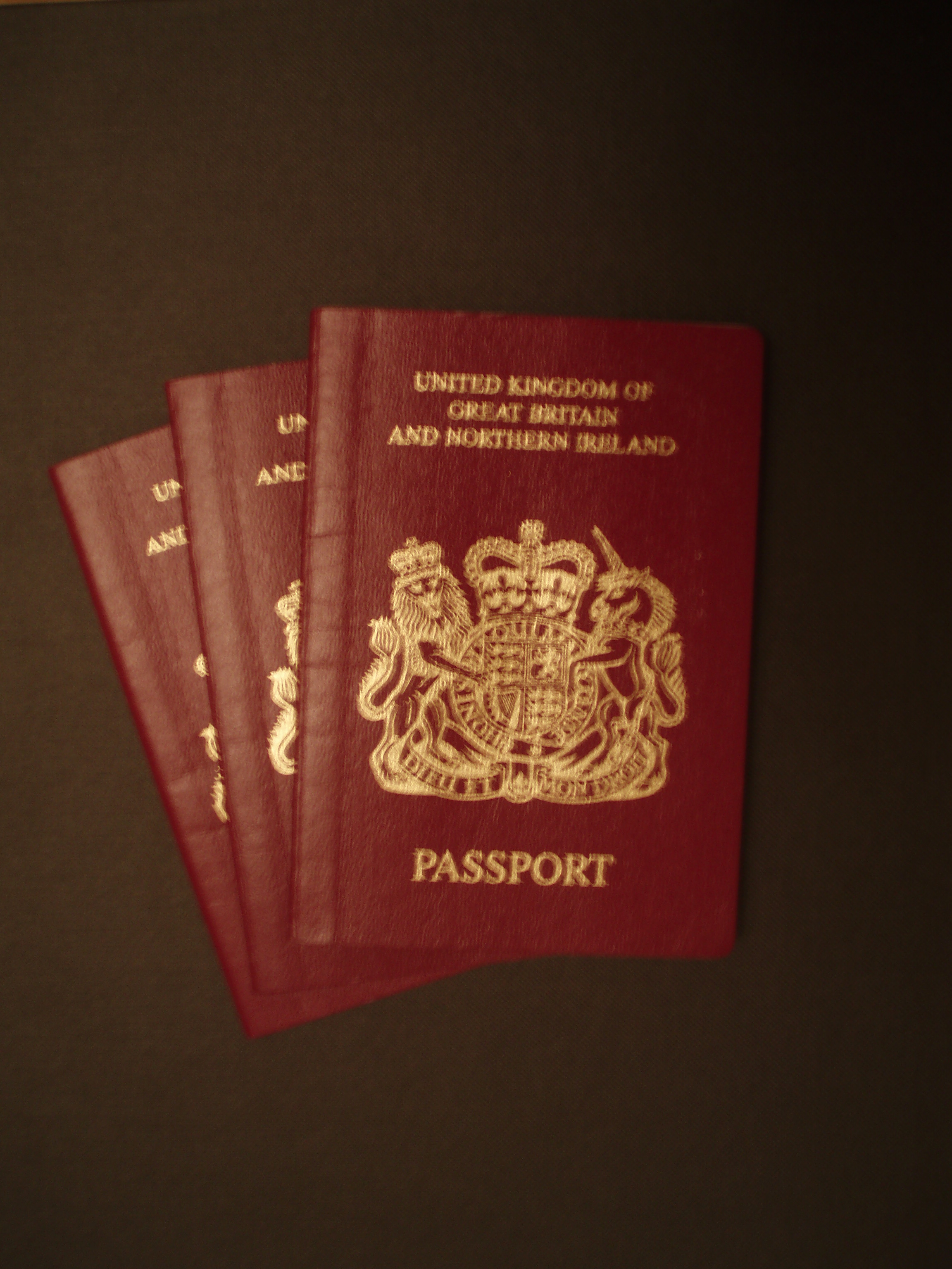 British National (Overseas) Passports for Hong Kong people.